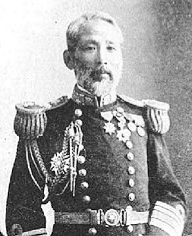 Arima Shinichi is an Imperial Japanese Navy Vice Admiral